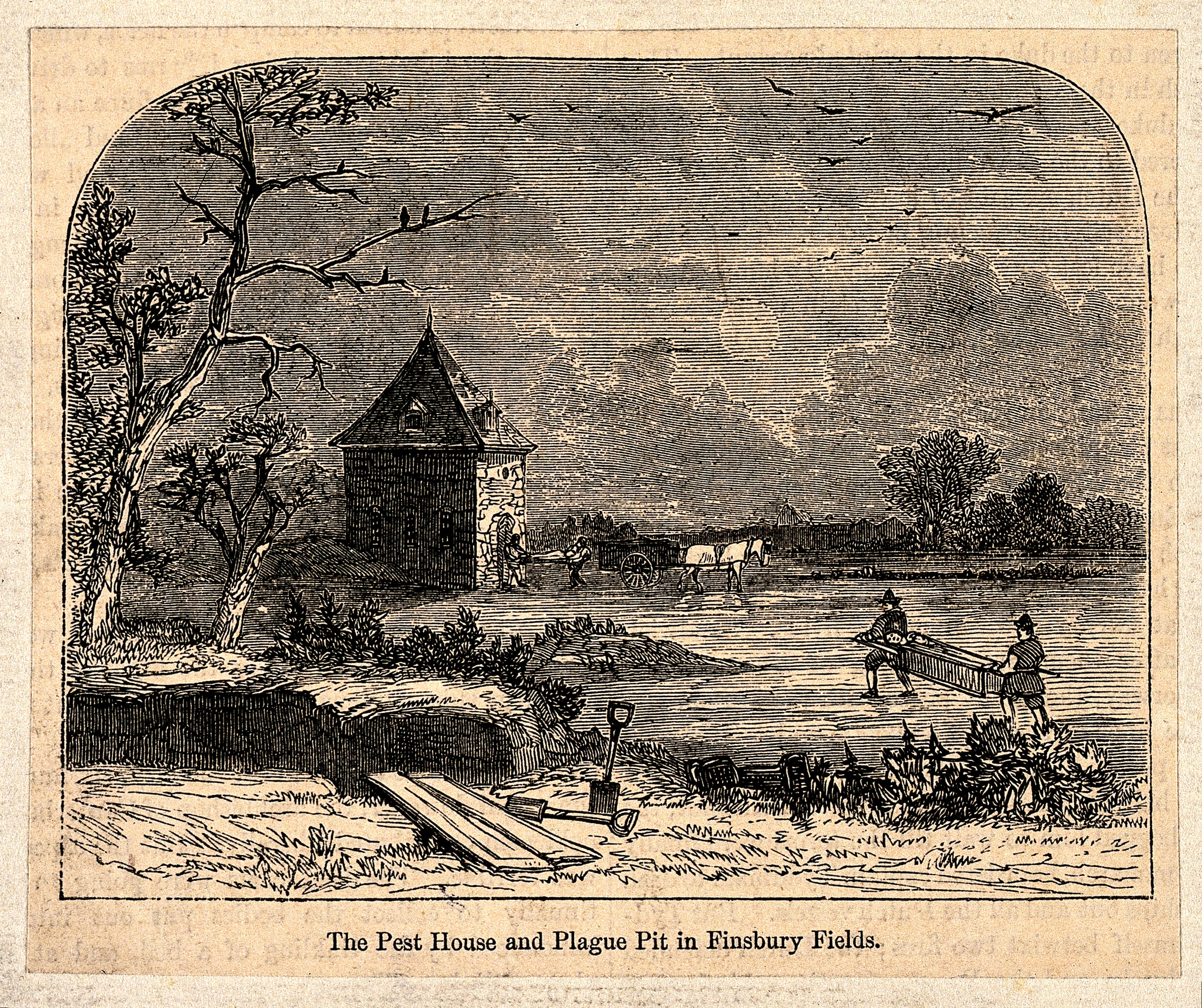 The pest house and plague pit, Moorfields, London. Wood engraving. Iconographic Collections Keywords: The Pest House, Finsbury (London, England)